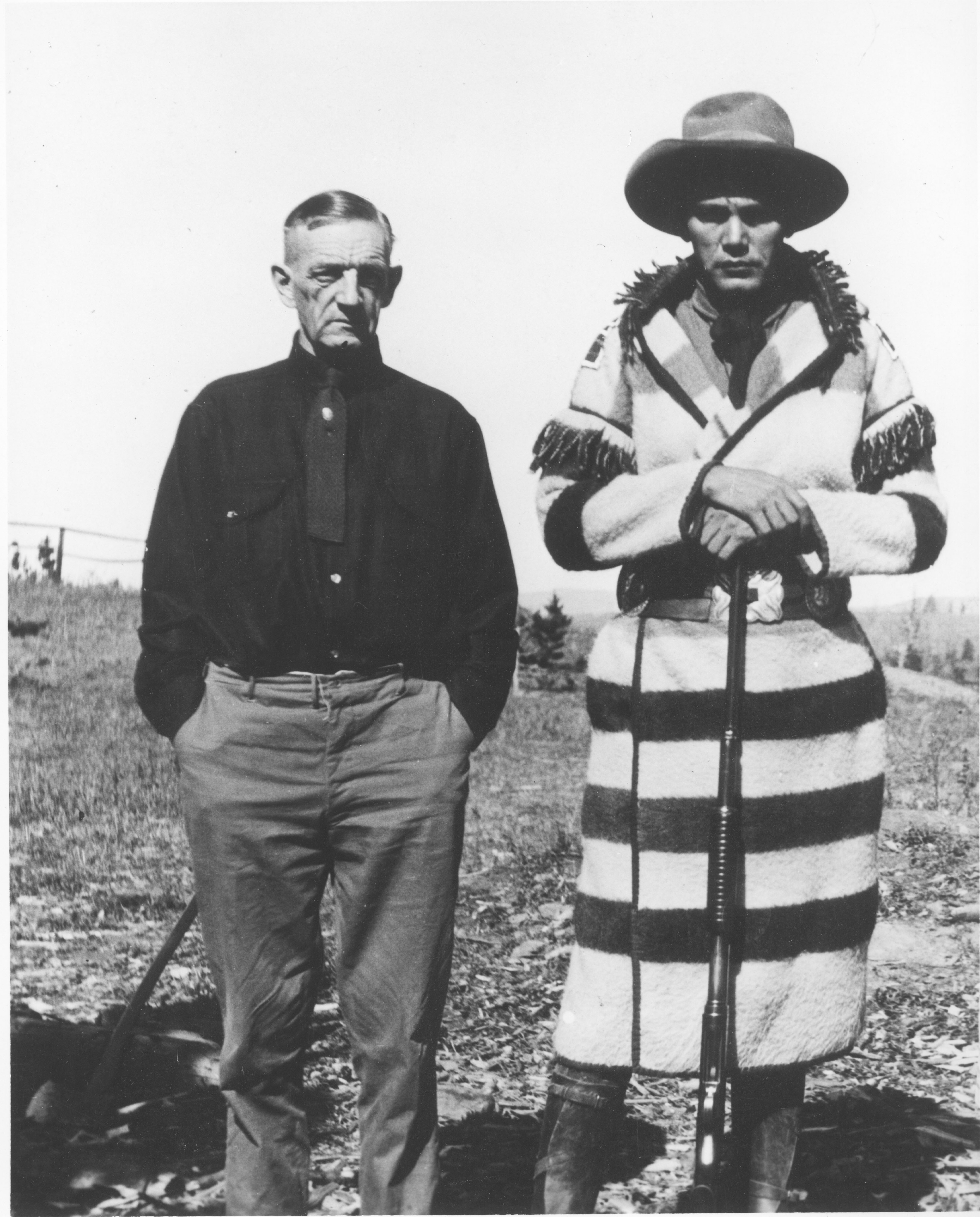 Title: James Willard Schultz and Lone Wolf, 1920 Creator: Unknown Date: 1920 Description: Two men standing outdoors in a field, one has on slacks and a tie, the other is wearing a blanket coat, a western hat and holding a shotgun. Written on verso: James W. Schultz and Lone Wolf- Browning, Montana 1920 I represent Montana State University Library and we are releasing this image into the Creative Commons. Notes: None Object's Physical Description: image/jpg Keywords: james willard schultz, hart merriam schultz, montana, glacier county, browning Object ID: 300